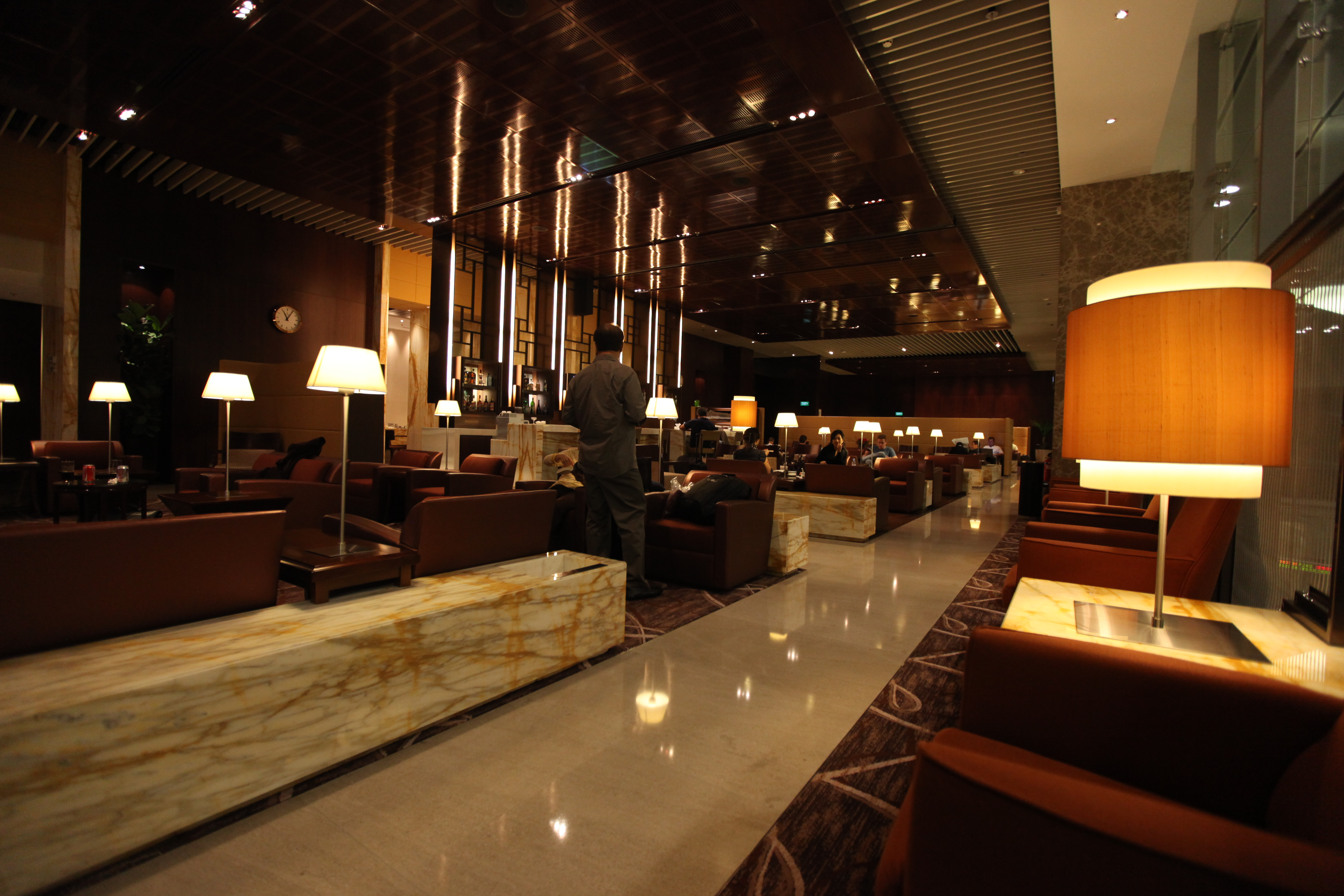 Silver Kris Lounge Singapore